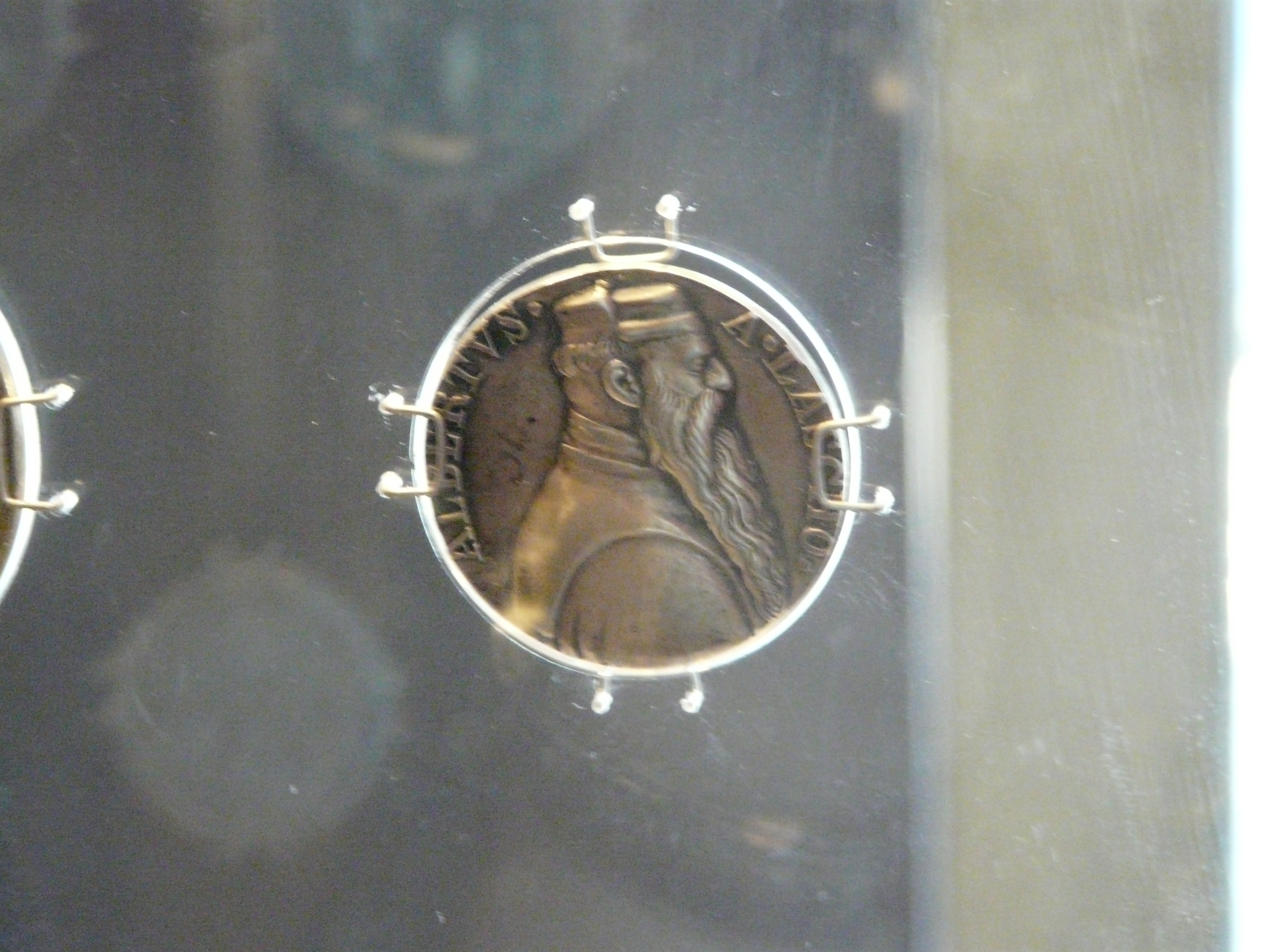 From the collection of the National Museum in Poznań. Olbracht Łaski